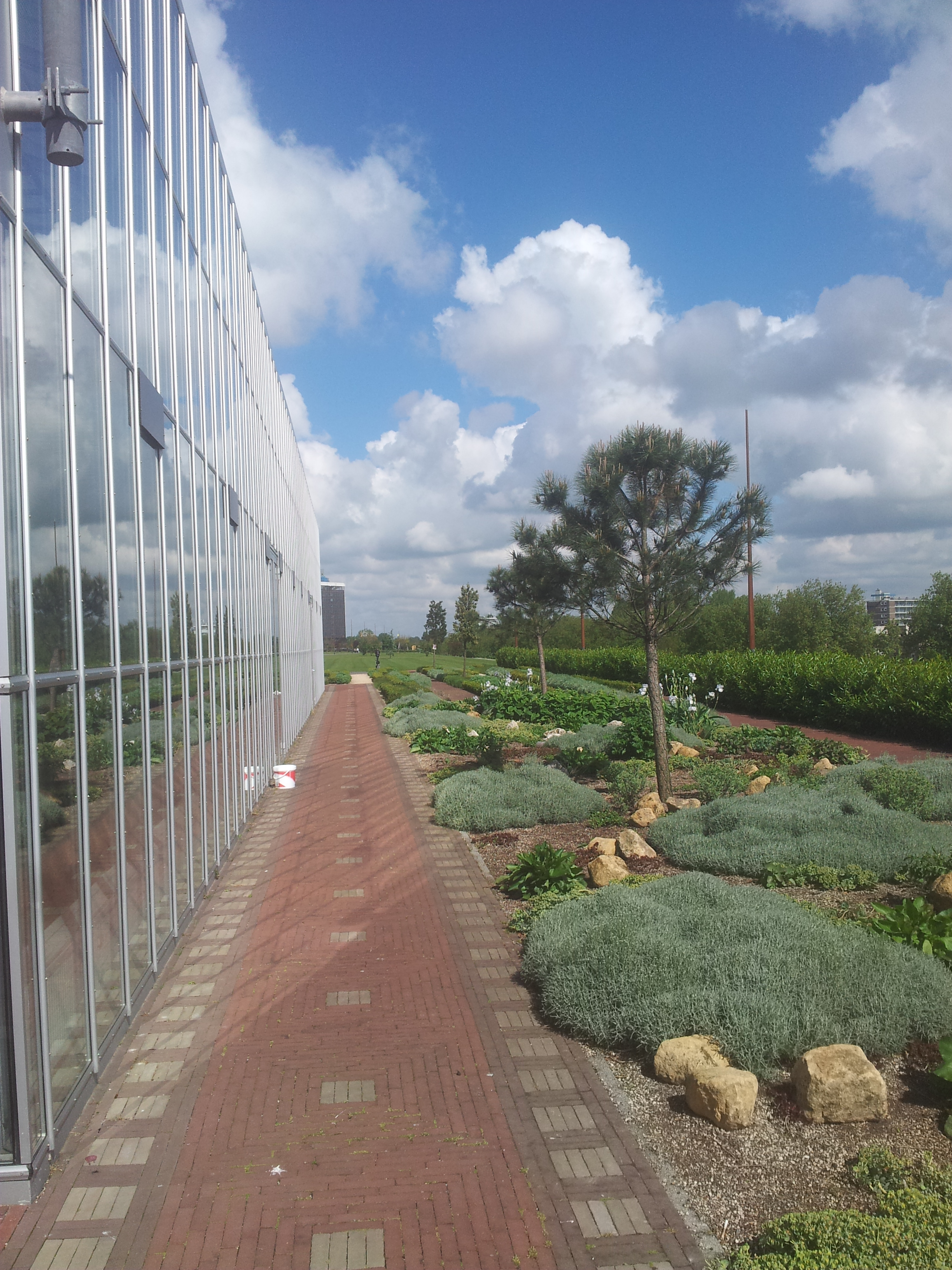 Dakpark above Bigshops Parkboulevard in Rotterdam. Netherlands